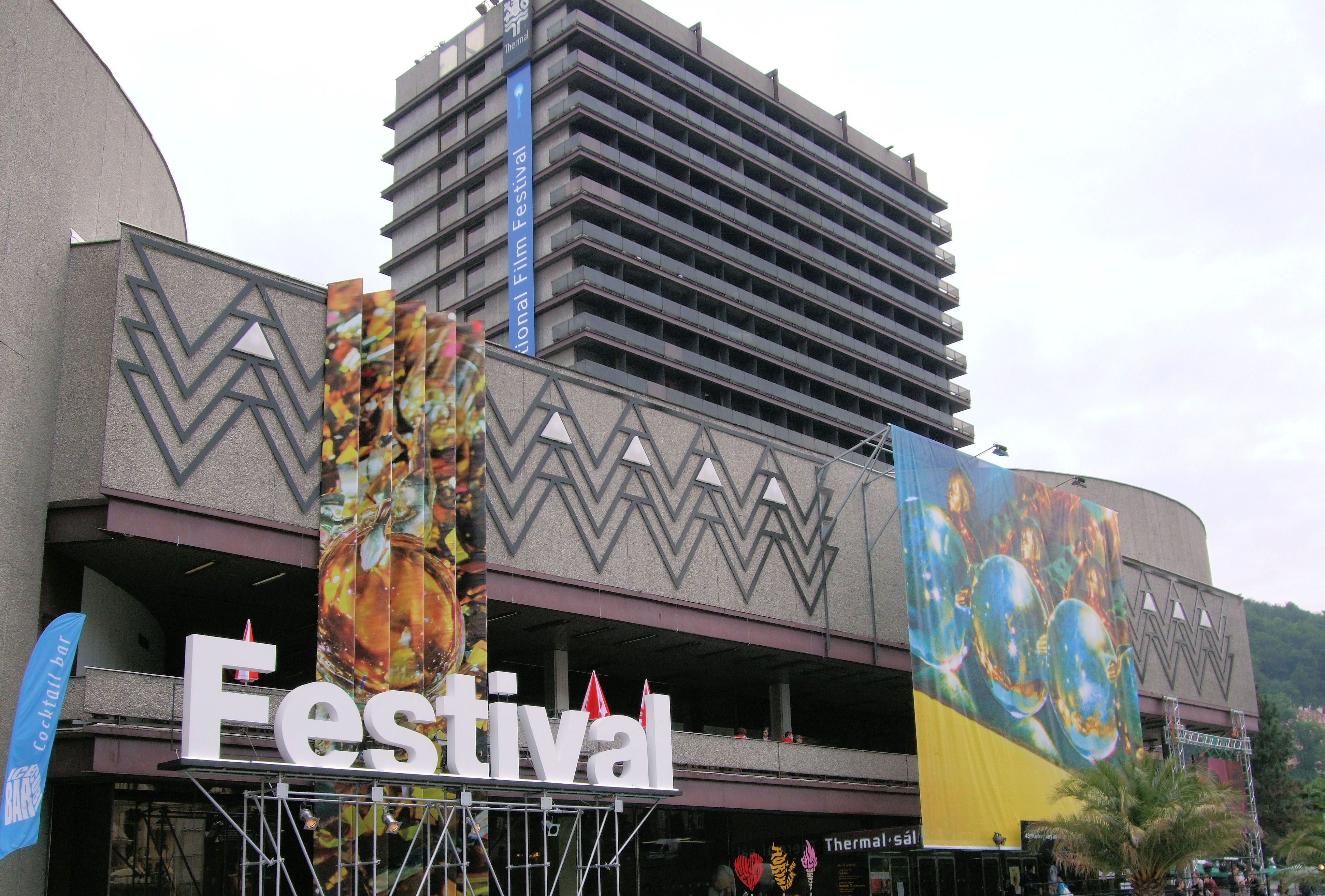 2008 Karlovy Vary International Film Festival, Czech Republic